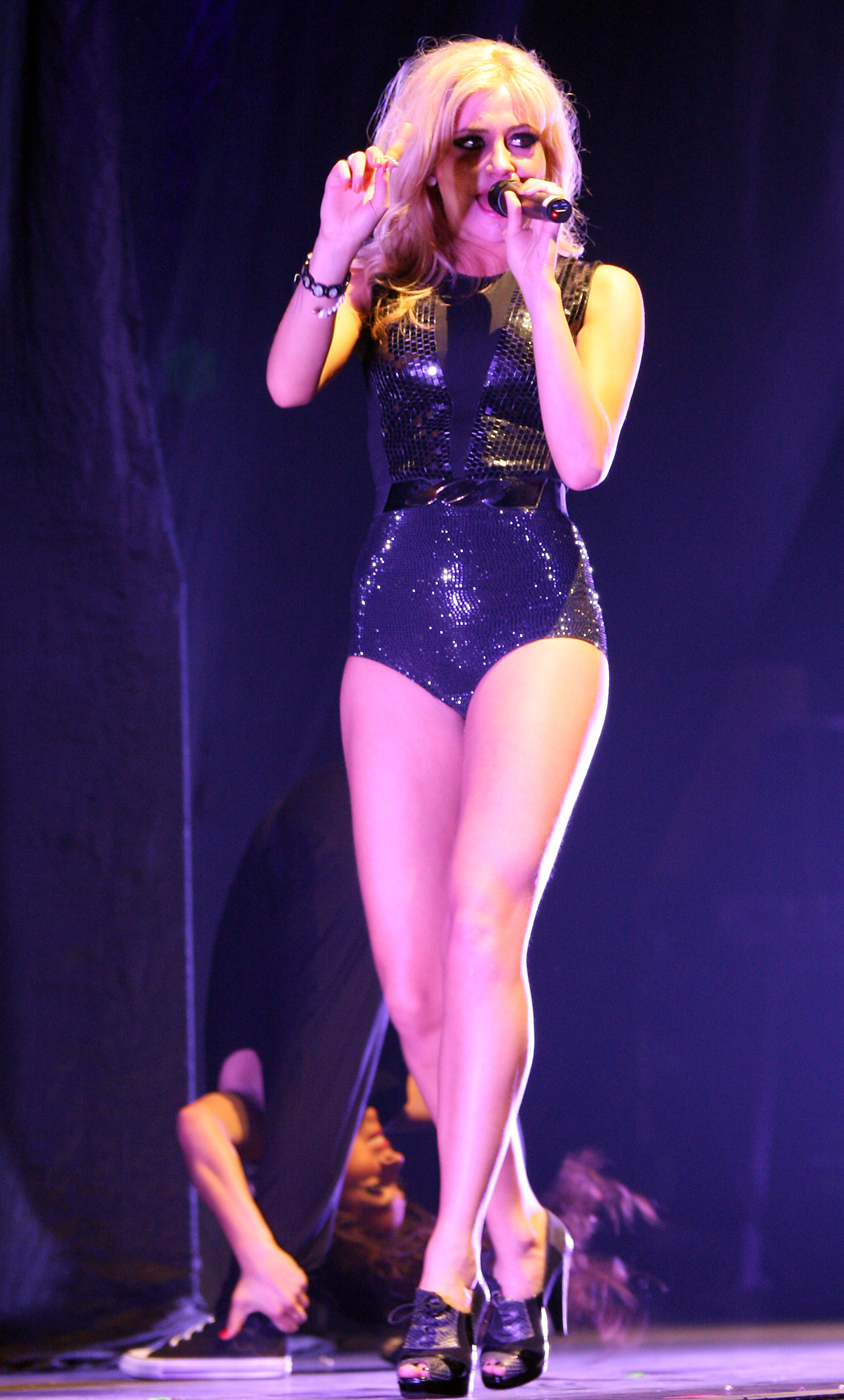 Pixie Lott performing live in 2009.